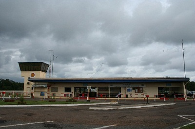 Terminal of Gamba Airbort in Gamba, Gabon.